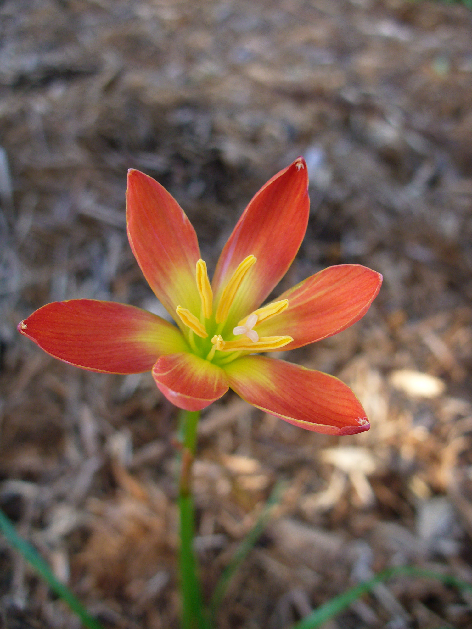 South Miami, Florida, USA